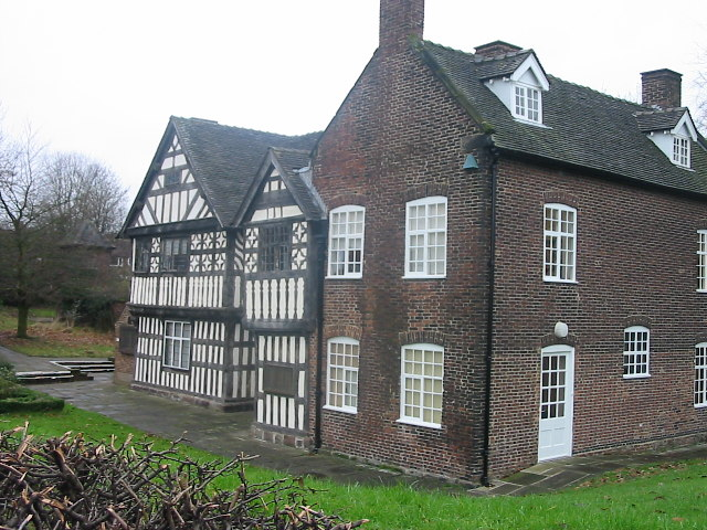 Ford Green Hall, Stoke on Trent. The hall is a 17th century house and period garden open to the public. It is furnished with original and reproduction textiles, ceramics and furniture.